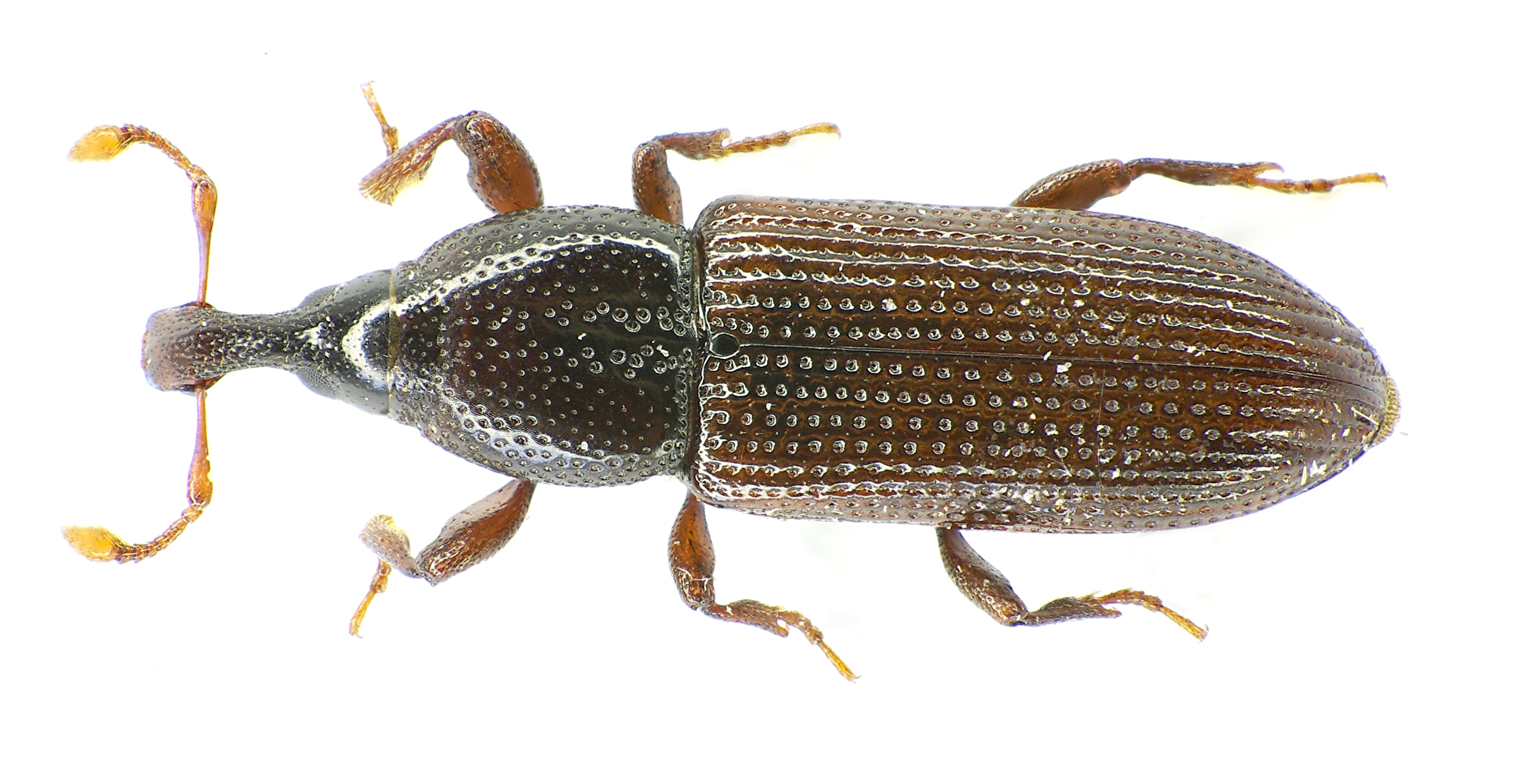 Cossonus linearis from Southern Germany